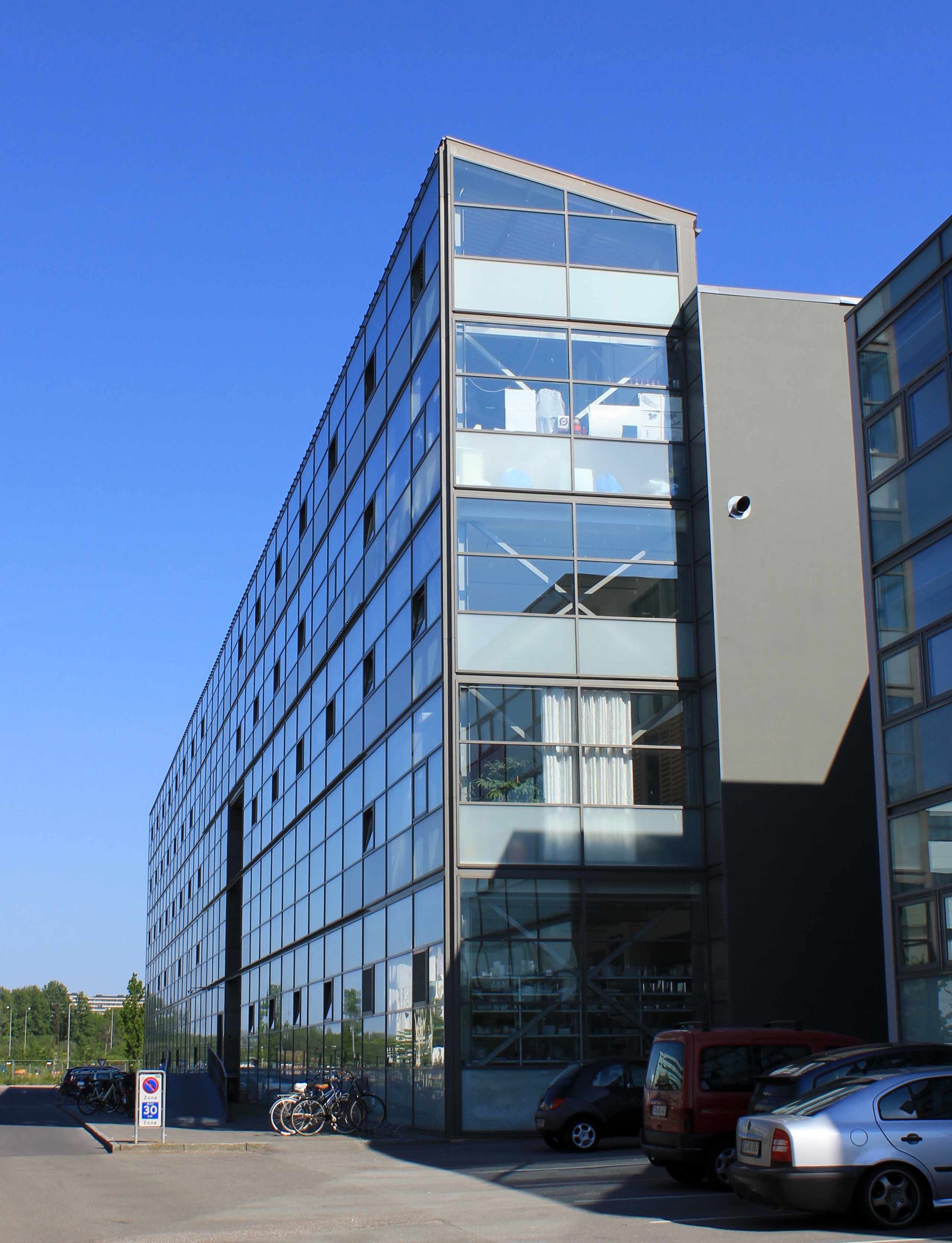 Kolding School of Design, in Denmark, is an independent institution that educates designers at Bachelor and Master levels, and was founded in 1967.